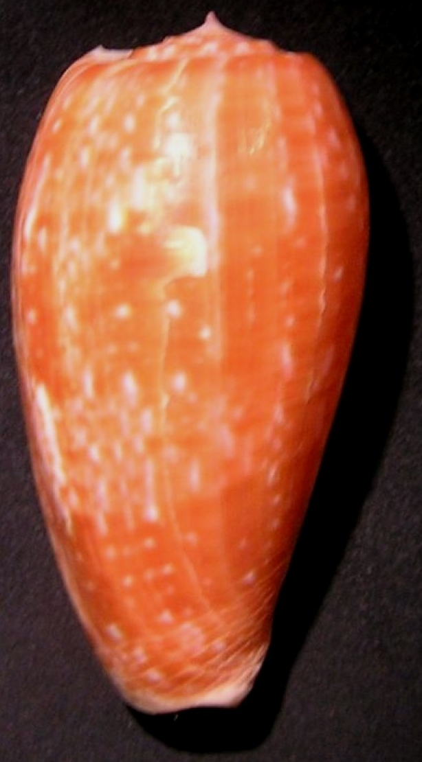 Top view of the Indo-Pacific seashell Conus bullatus Linnaeus, 1758 - Bubble Cone / Origin of image: Own collection. Philippines. Cebu. Chango Island.